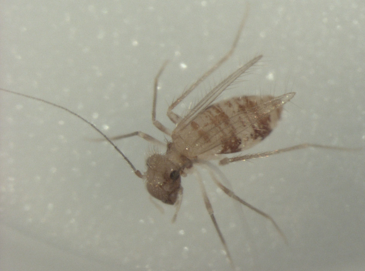 live adult Dorypteryx longipennis.NEW ZEALAND AK, Auckland University, City Campus, on wall of Clock Tower East Wing, 28 Sep 2009, S.E. Thorpe